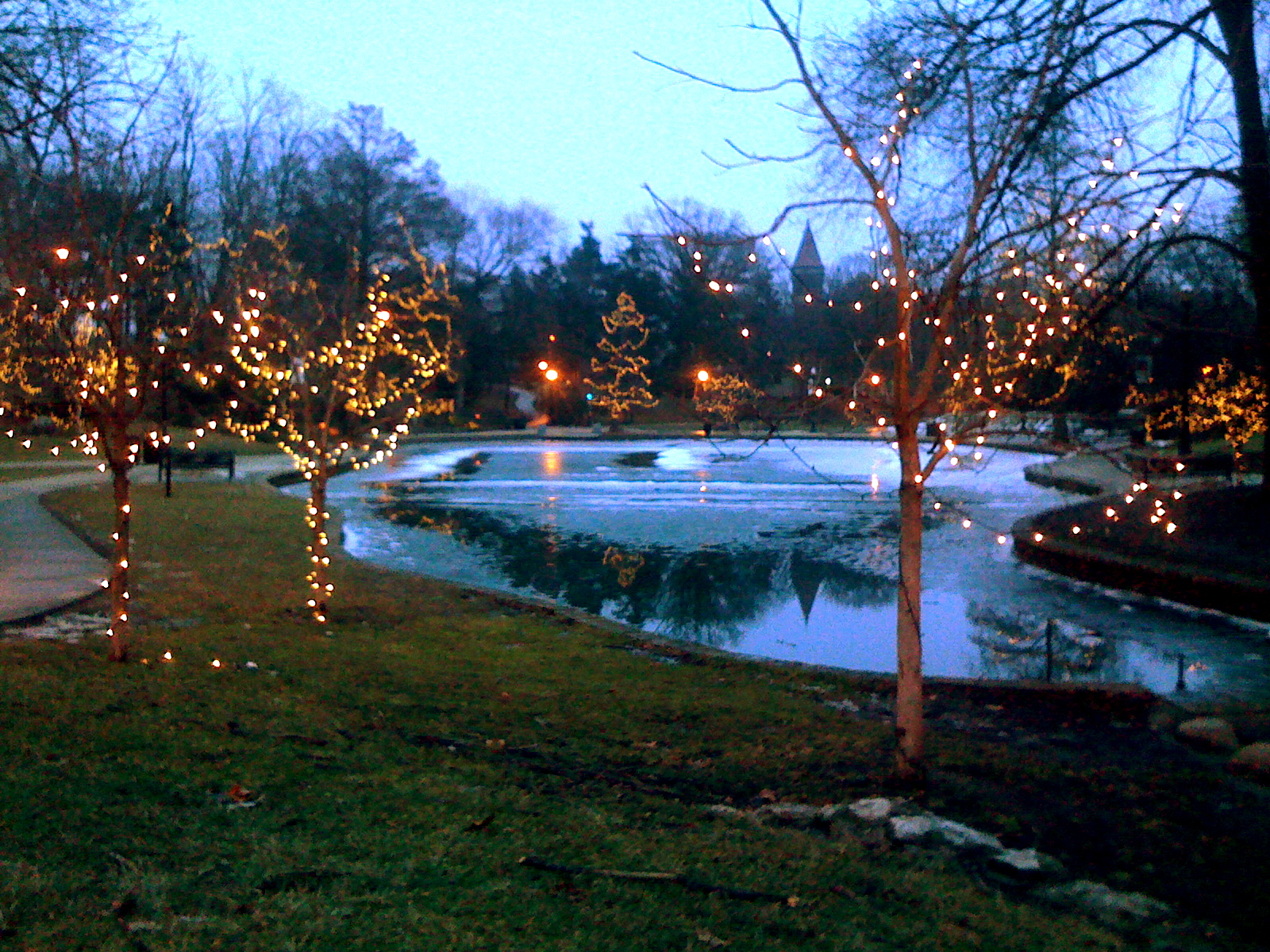 Mirror Lake lights from Light Up The Lake by Ohio Staters Inc.